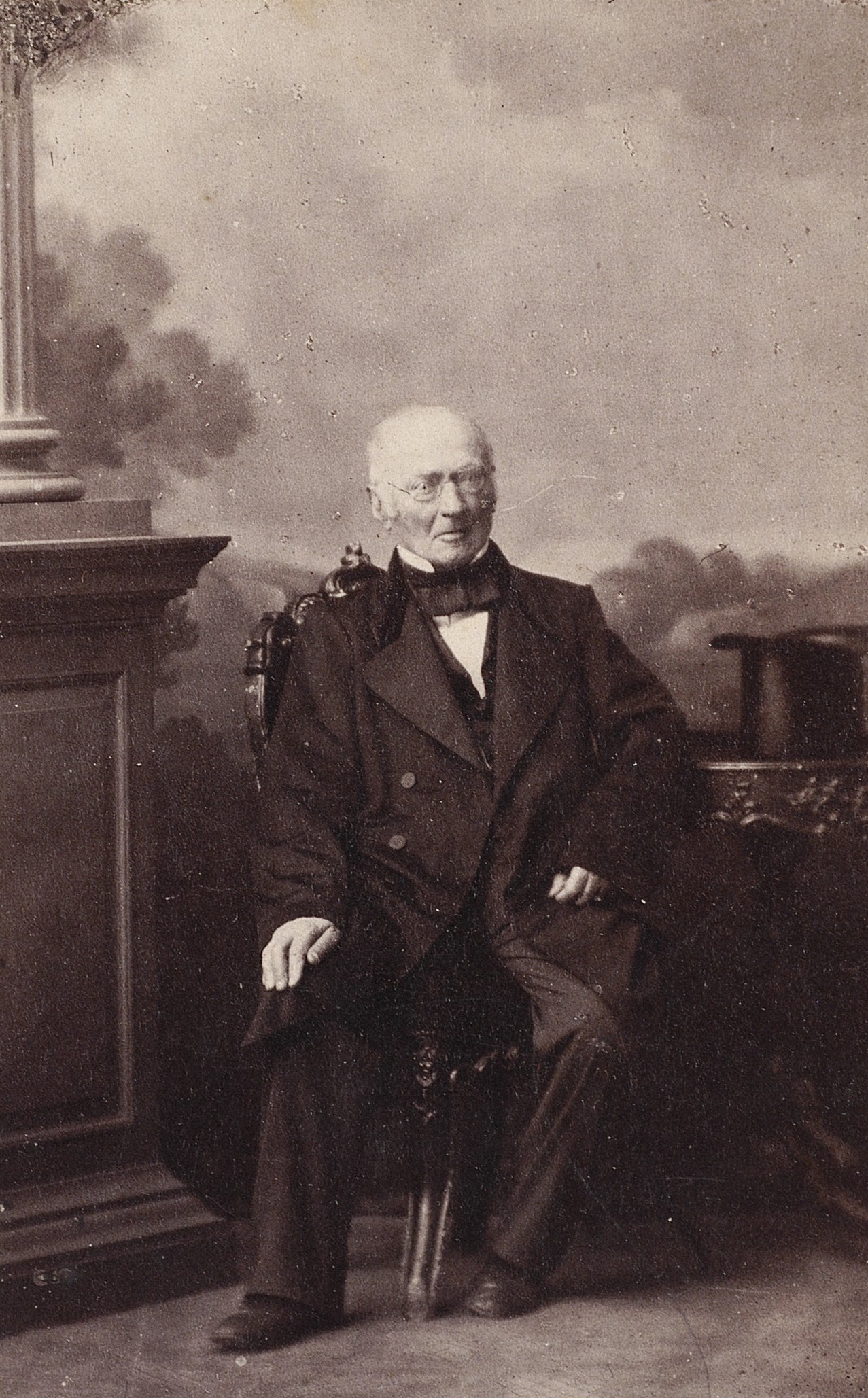 Photo of Franciszek Wężyk by Karol Bever.